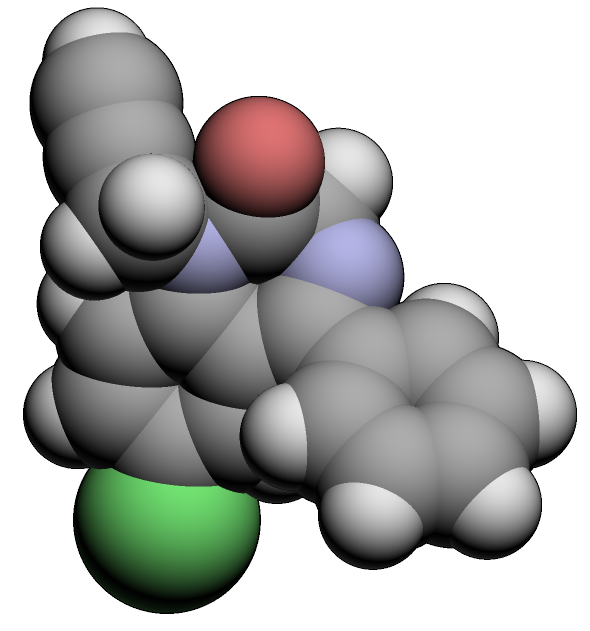 Molecular spacefill of Pinazepam